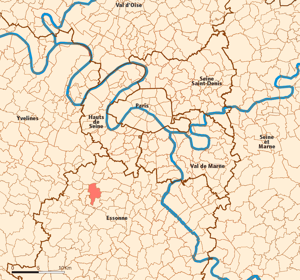 Orsay